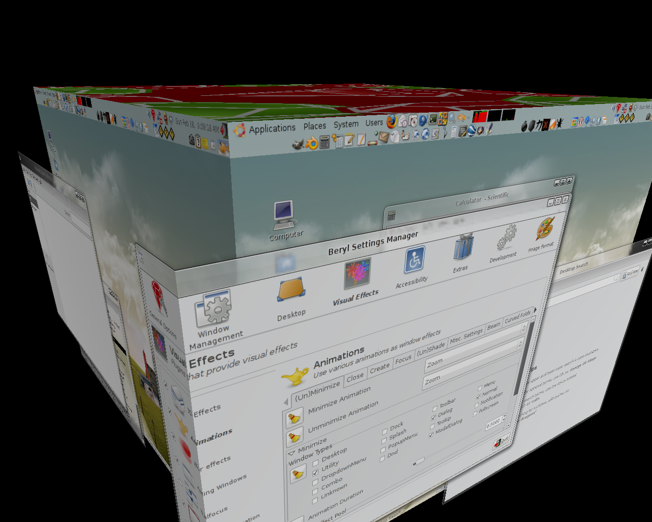 Demonstration of Beryl's desktop cube feature.